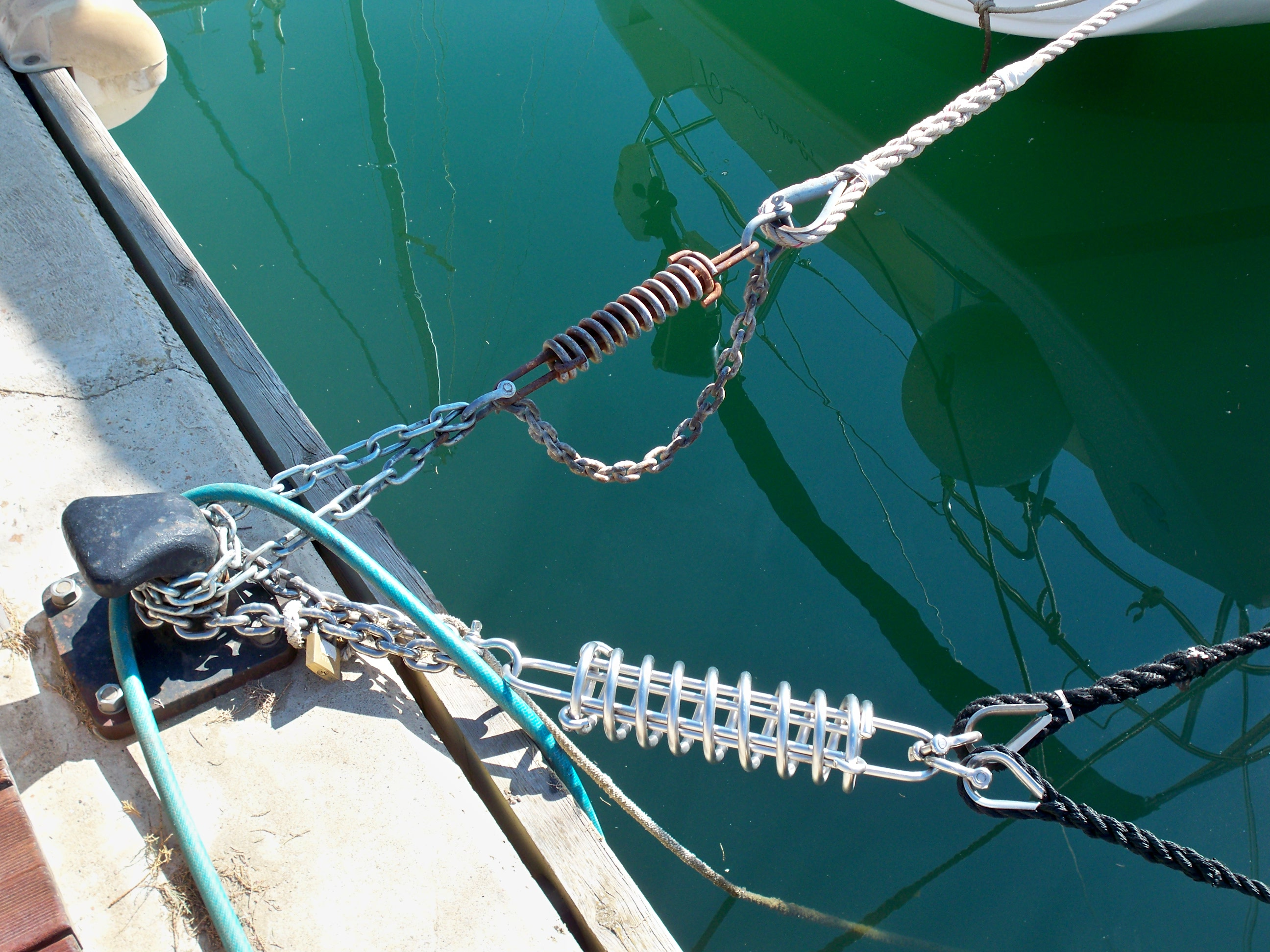 Mooring spring secured with additional chain